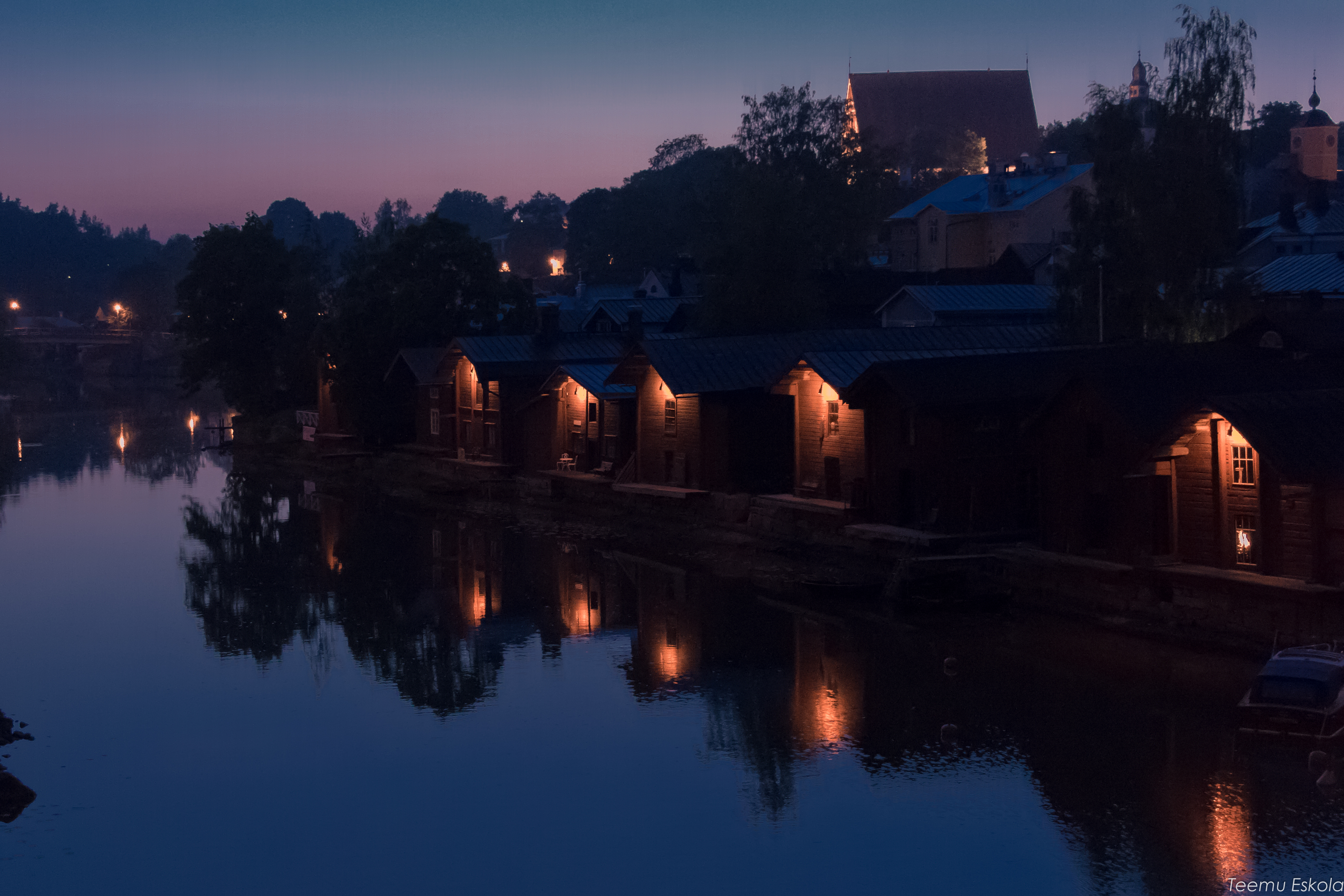 Porvoo Old Town at night time. Summer 2014